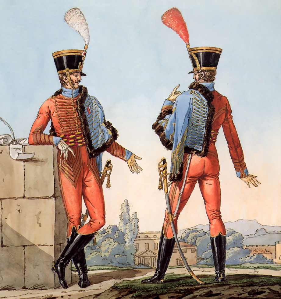 Part of a series chronicling the uniforms of Napoleon's Grande Armée.